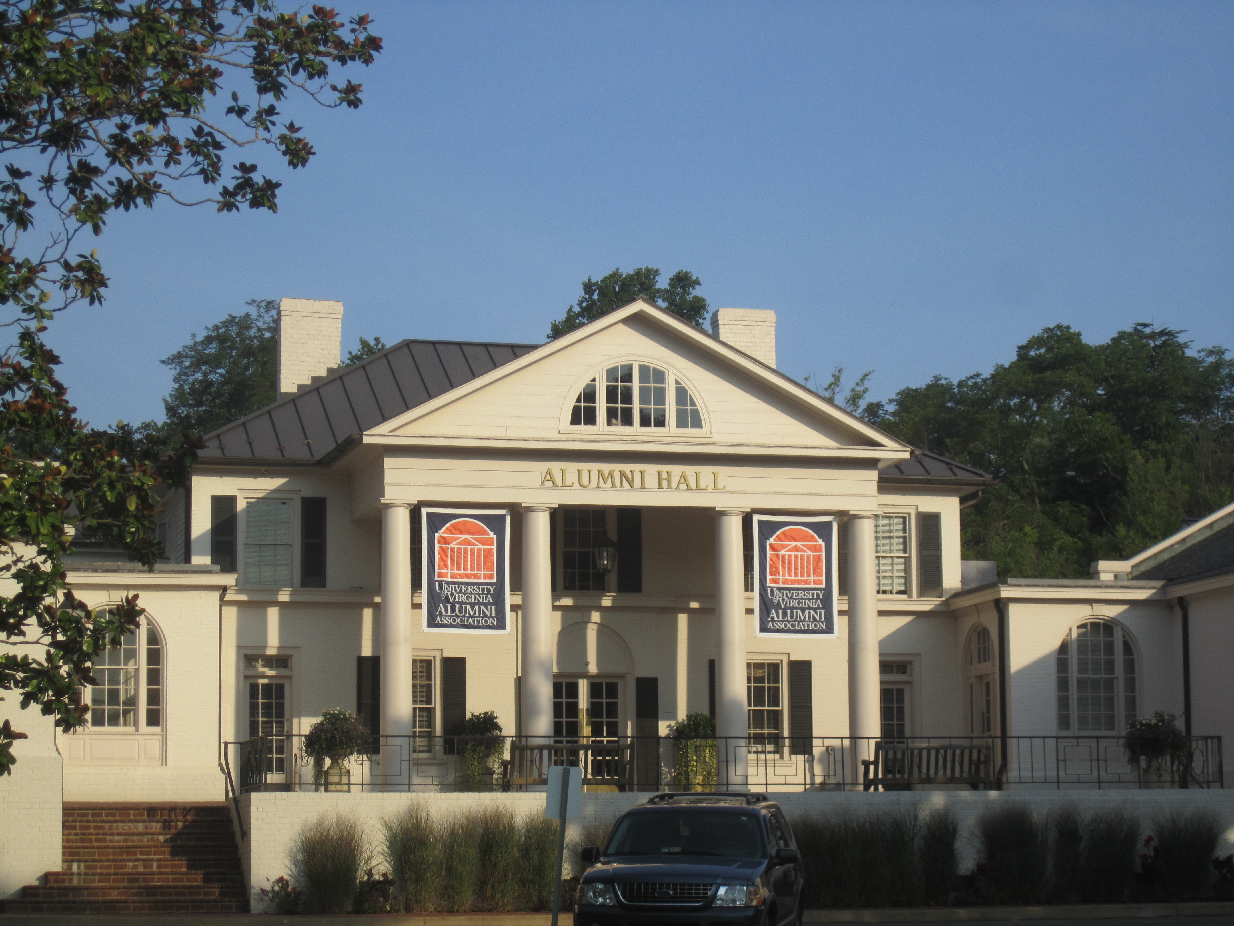 I took photo with Canon camera of Alumni Hall of University of VA at Charlottesville.